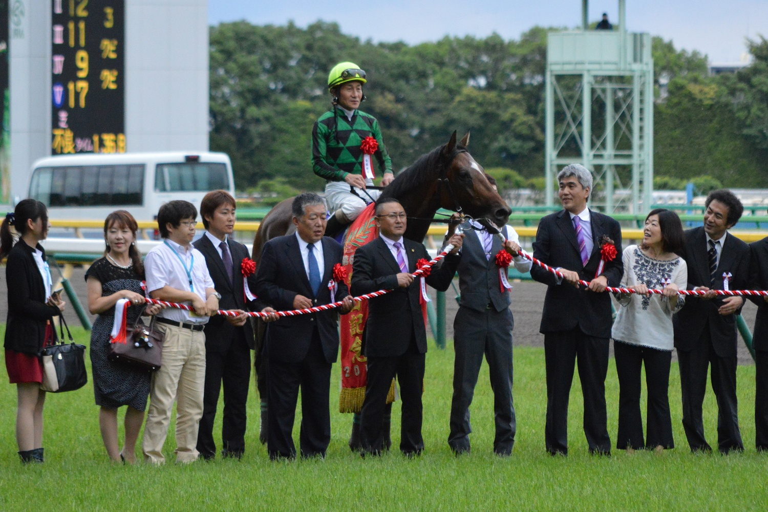 Japanese race horse Just A Way at Tokyo racecourse. Tokyo (JPN) 08 Jun 2014 Yasuda Kinen (Grade 1) (3yo+) (Turf) 1m Soft RankHorse NameOddsAgeWgtTrainerJockey1stJust A Way (JPN)7/10FH59-2Naosuke SugaiYoshitomi Shibata2ndGrand Prix Boss (JPN)147/1H69-2Yoshito YahagiKosei Miura3rdShonan Mighty (JPN)36/1H69-2Tomoyuki UmedaHiroshi Kitamura4th - 17th/omission